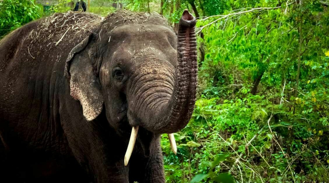 58 year old kurumambapatti Asiatic elephant